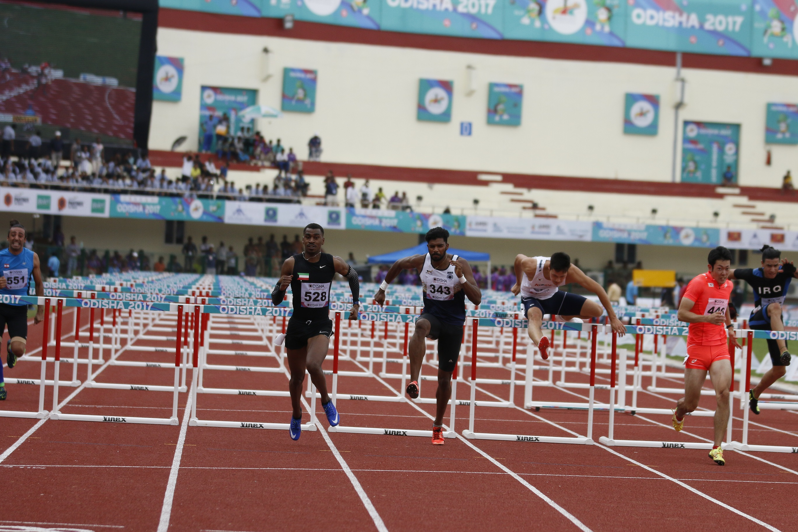 Athletes during 22nd Asian Athletics Championships in Bhubaneswar.